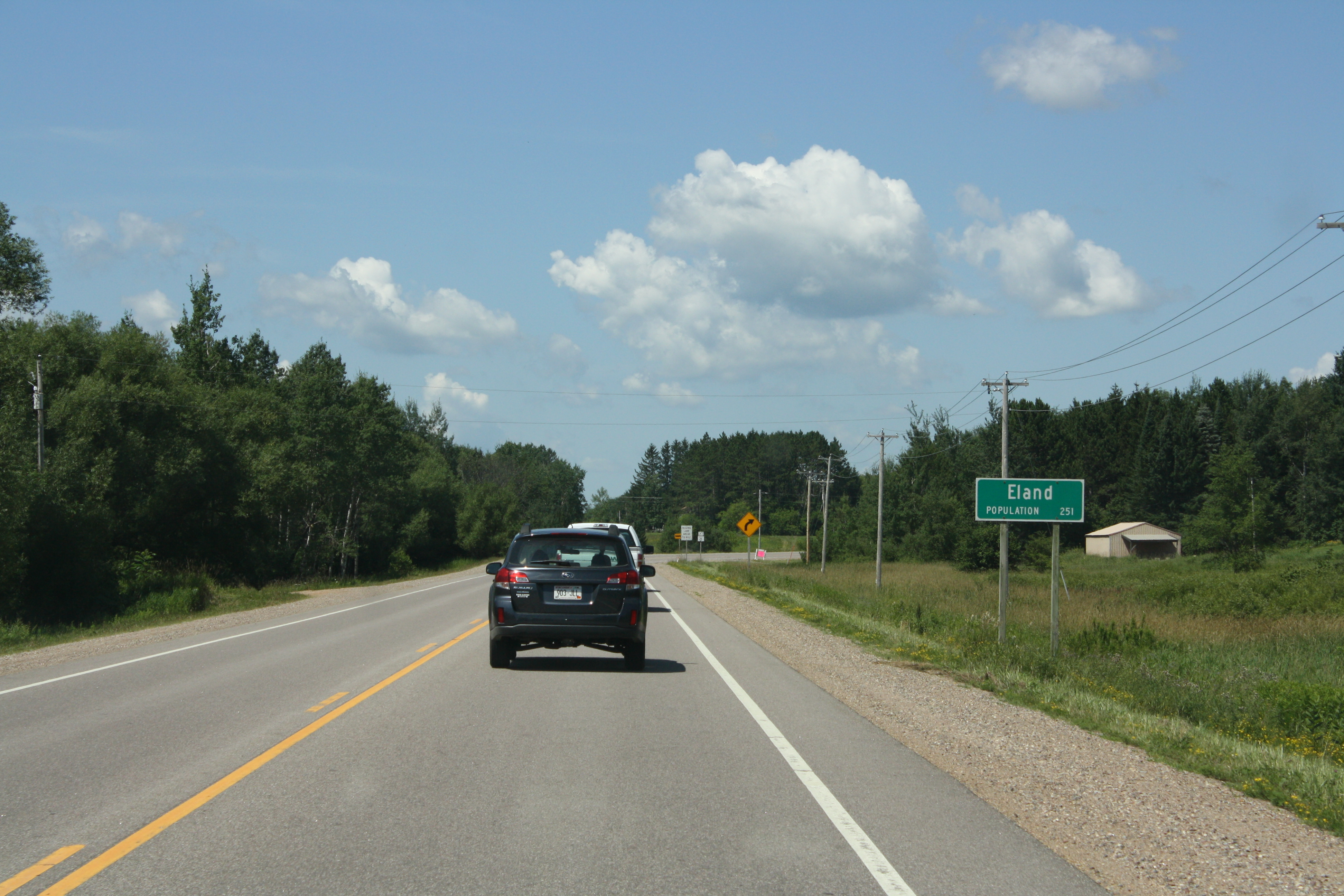 Looking west at the sign for Eland, Wisconsin on U.S. Route 45.